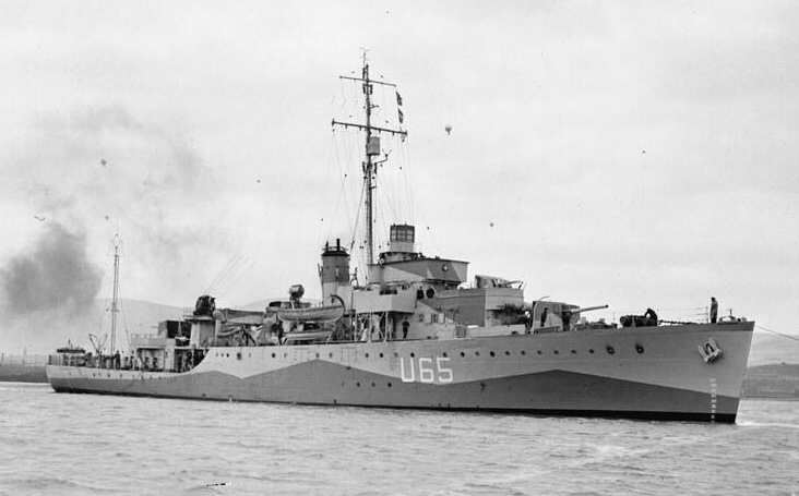 HMS Wellington Under tow.